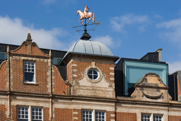 Whitechapel Gallery